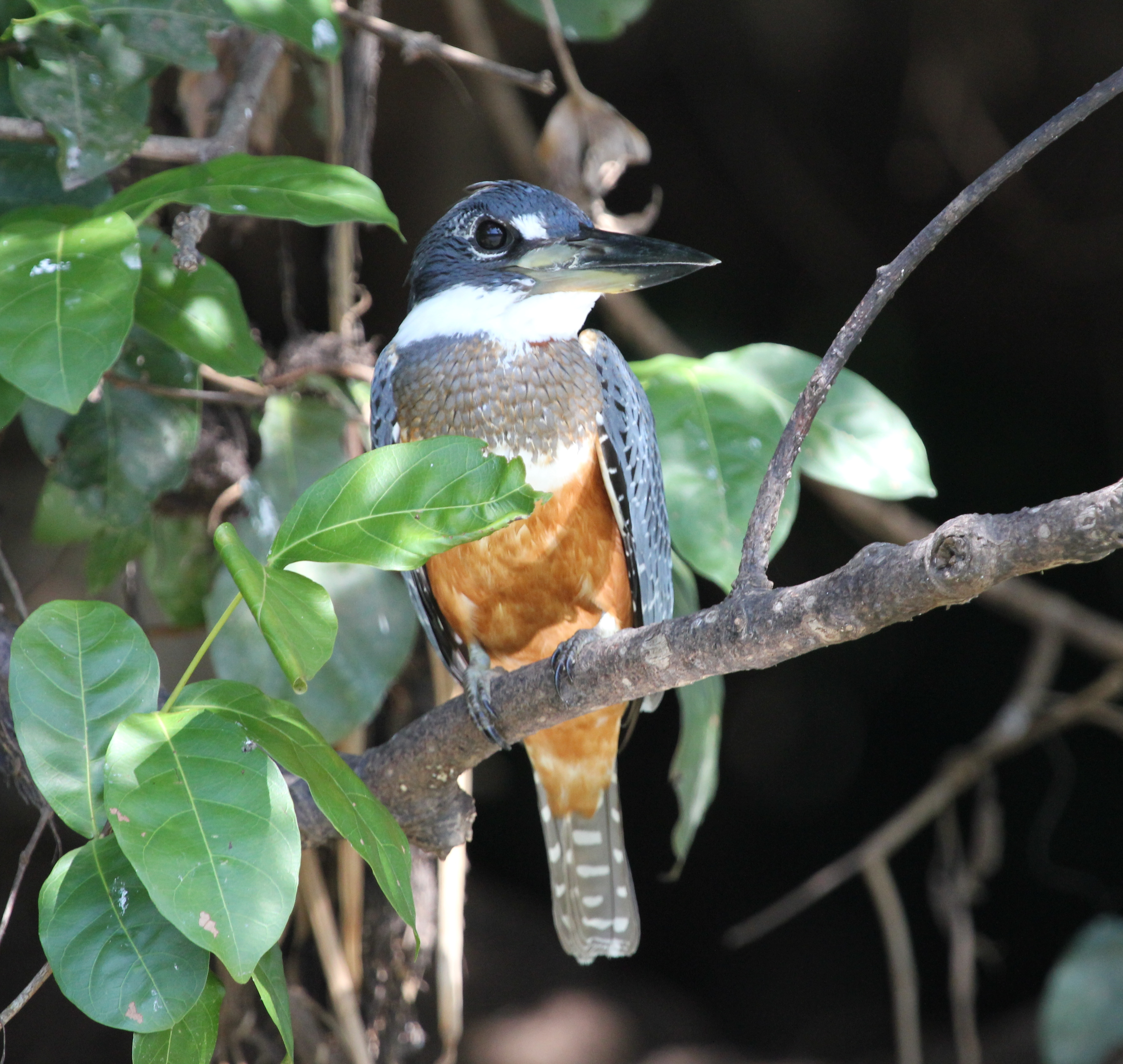 Juvenile female Ringed Kingfisher (Megaceryle torquata) in the Pantanal, Mato Grosso, Brazil